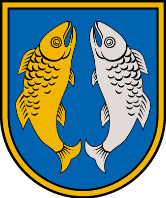 Coat of arms of Roja municipality